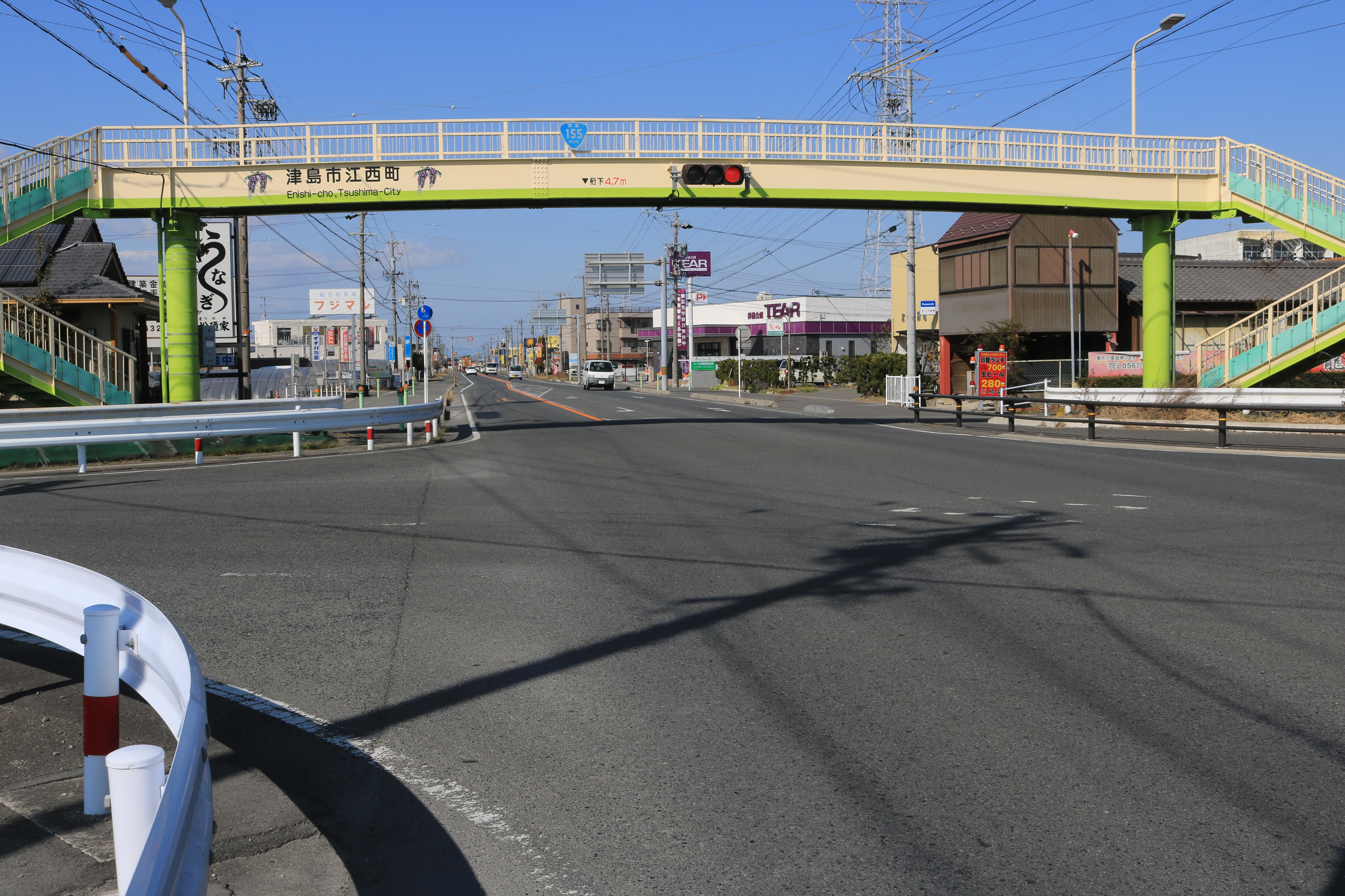 Route 155 in Enichicho, Tsushima, Aichi prefecture, Japan.